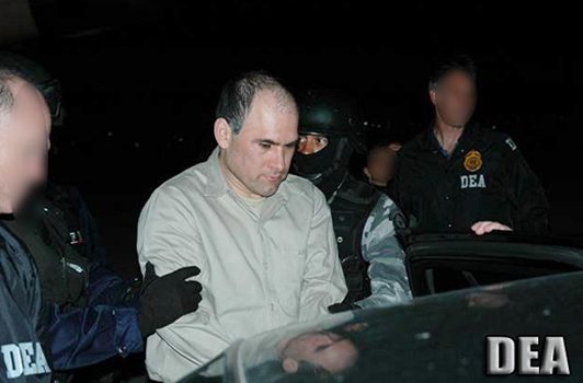 Osiel Cárdenas Guillén, 15 of the world’s most violent and ruthless criminals and kingpin of the Gulf Cartel, is being extradited to the United States from Mexico. This picture was considered among the Drug Enforcement Administration's Picture of the Year in 2007.